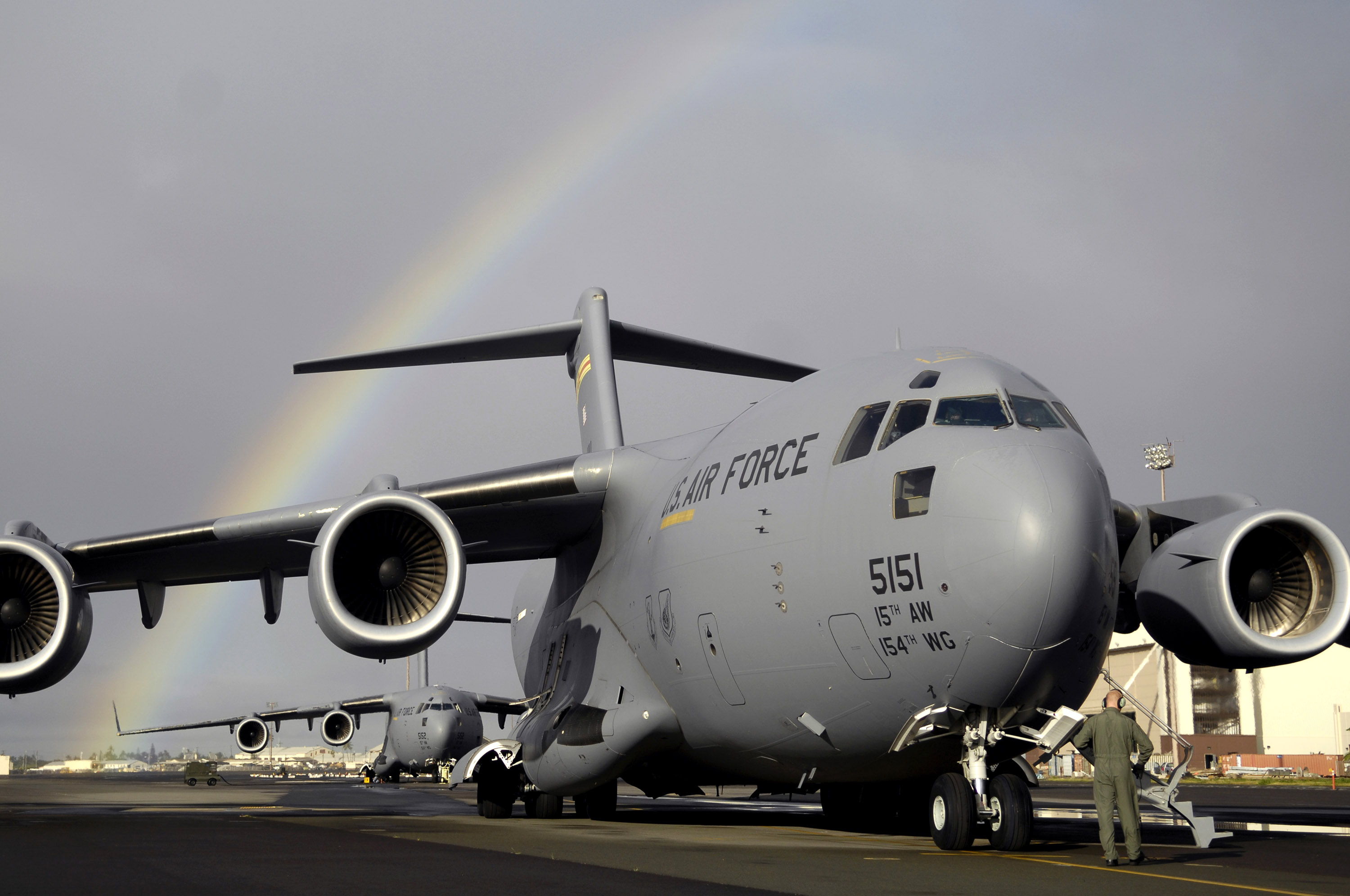 Staff Sgt. John Eller conducts pre-flights check on his C-17 Globemaster III Jan. 3 prior to taking off from Hickam Air Force Base, Hawaii for a local area training mission. Sgt. Eller is a loadmaster from the 535th Airlift Squadron.